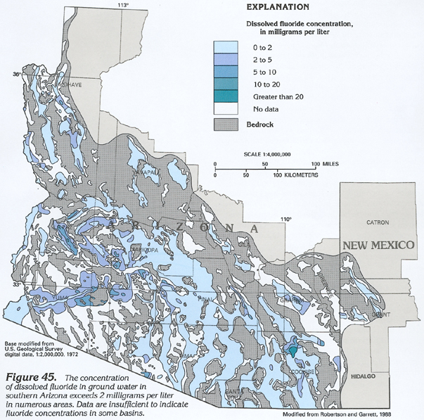 Concentration of dissolved fluoride in ground water in southern Arizona